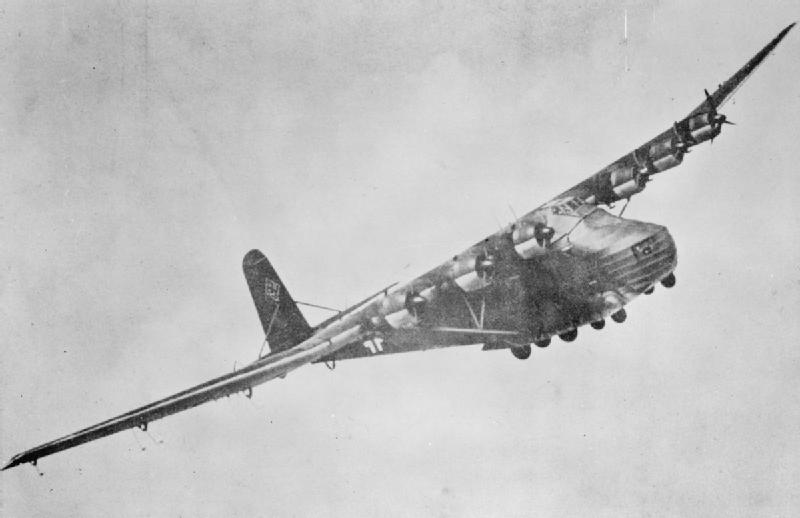 The Luftwaffe 1939-1945 A Messerschmitt Me 323 "Gigant" (Giant) in flight, banking towards the camera. This hugh six-engined transport was developed from the Me 321 glider and entered service in late 1942 in the Middle East, helping to supply Rommel's Afrika Korps from bases in Sicily. Me 323s were also used on the Eastern Front.